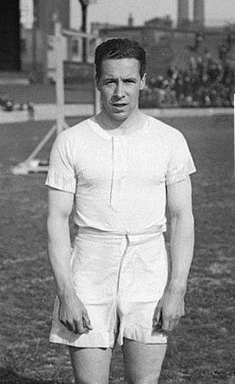 Competitors in the Civil Service Athletic Sports 220 yards race at Stamford Bridge in London. Henry Macintosh